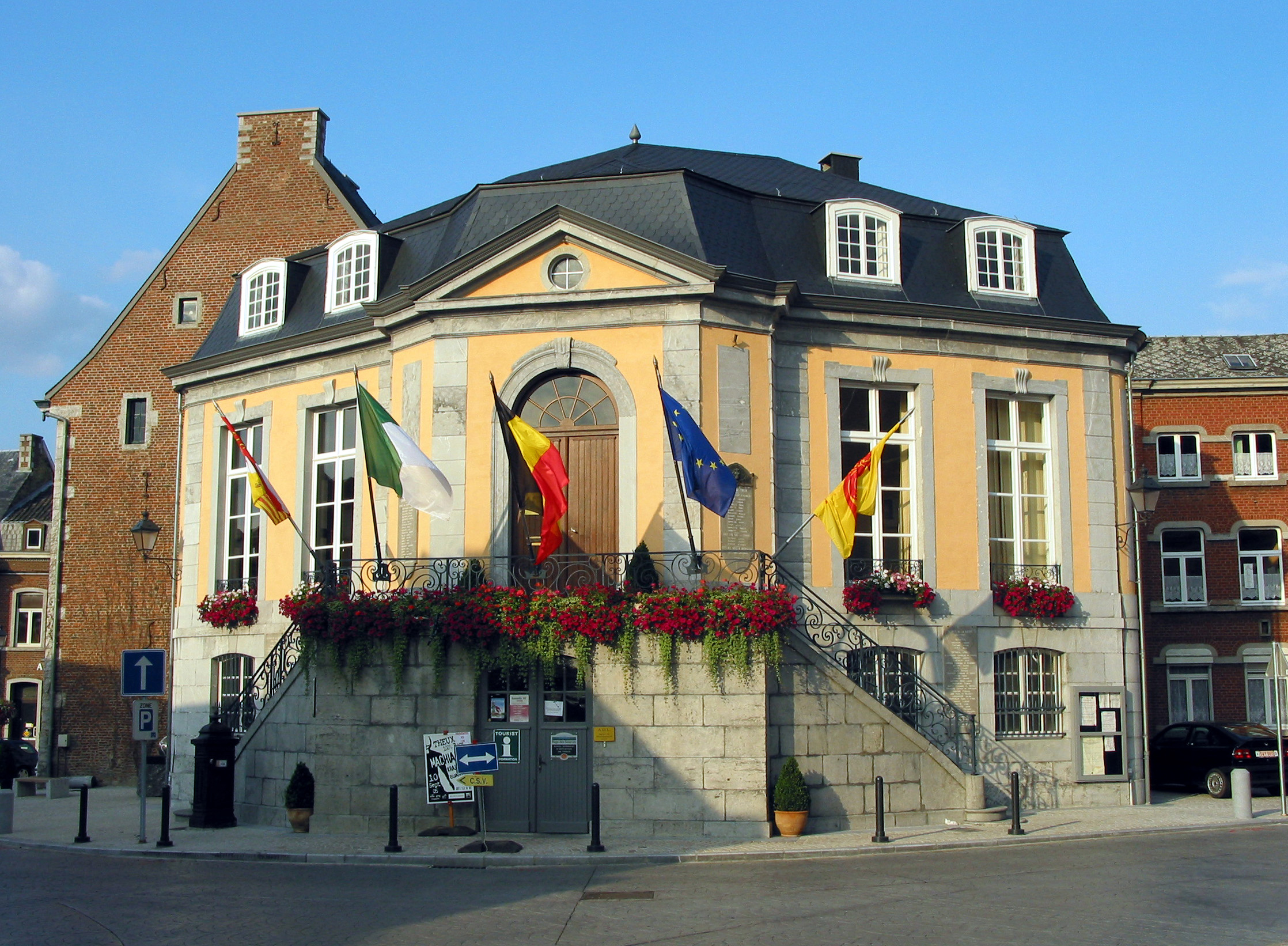 Theux (Belgium), the city hall (1630-1770).